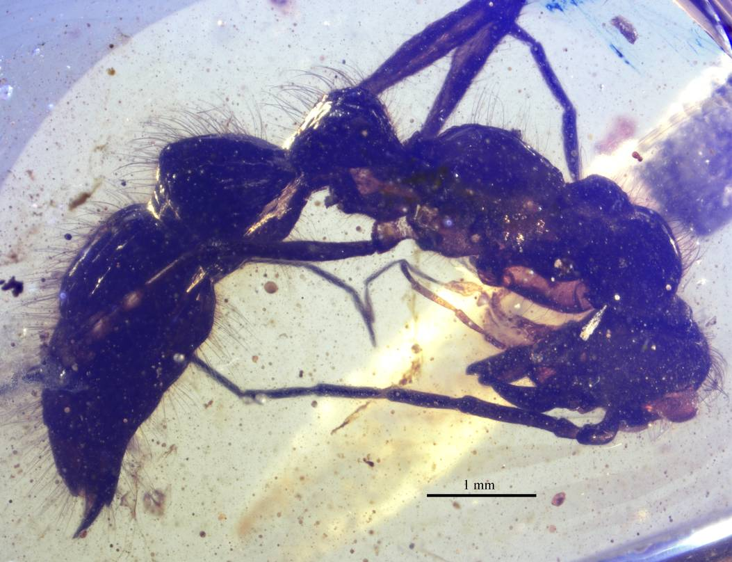 Profile view of the Gerontoformica maraudera holotype specimen, JZCBU1846. Burmese amber, Myanmar, Albian-Cenomanian (99 million years old